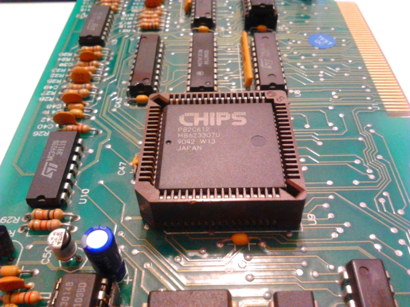 The CHIPS P82C612 as found on the MCV SoundBlaster